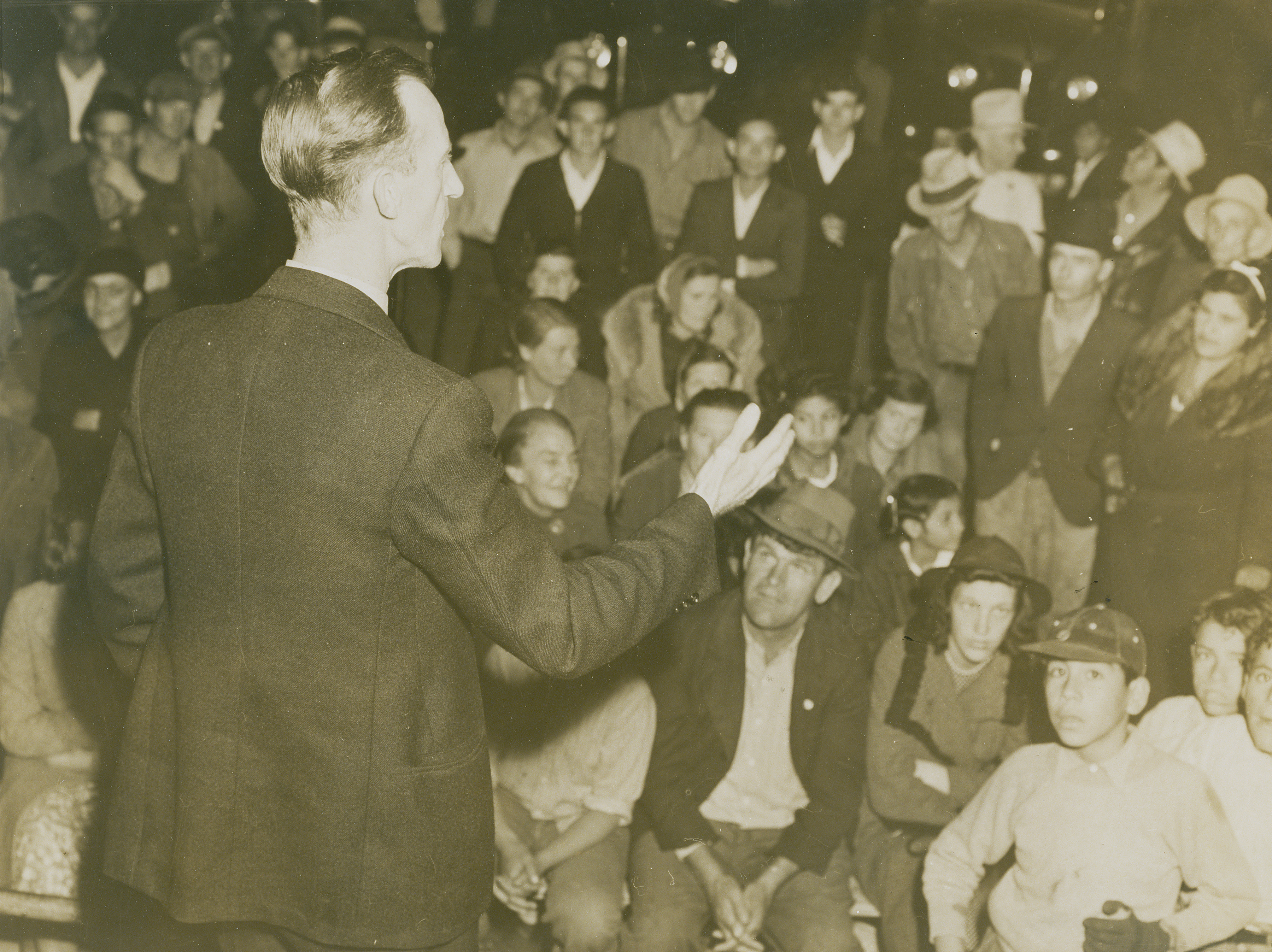 Organizer for the United Cannery Agricultural Packing and Allied Workers of America (CIO) Addresses Street Meeting of Striking Farmers, Mexican Town, outside Shafter, California; Dorothea Lange (American, 1895 - 1965); November 1938; Gelatin silver print; 20.3× 25.4 cm (8 × 10 in.); 2001.36.2; No Copyright - United States (